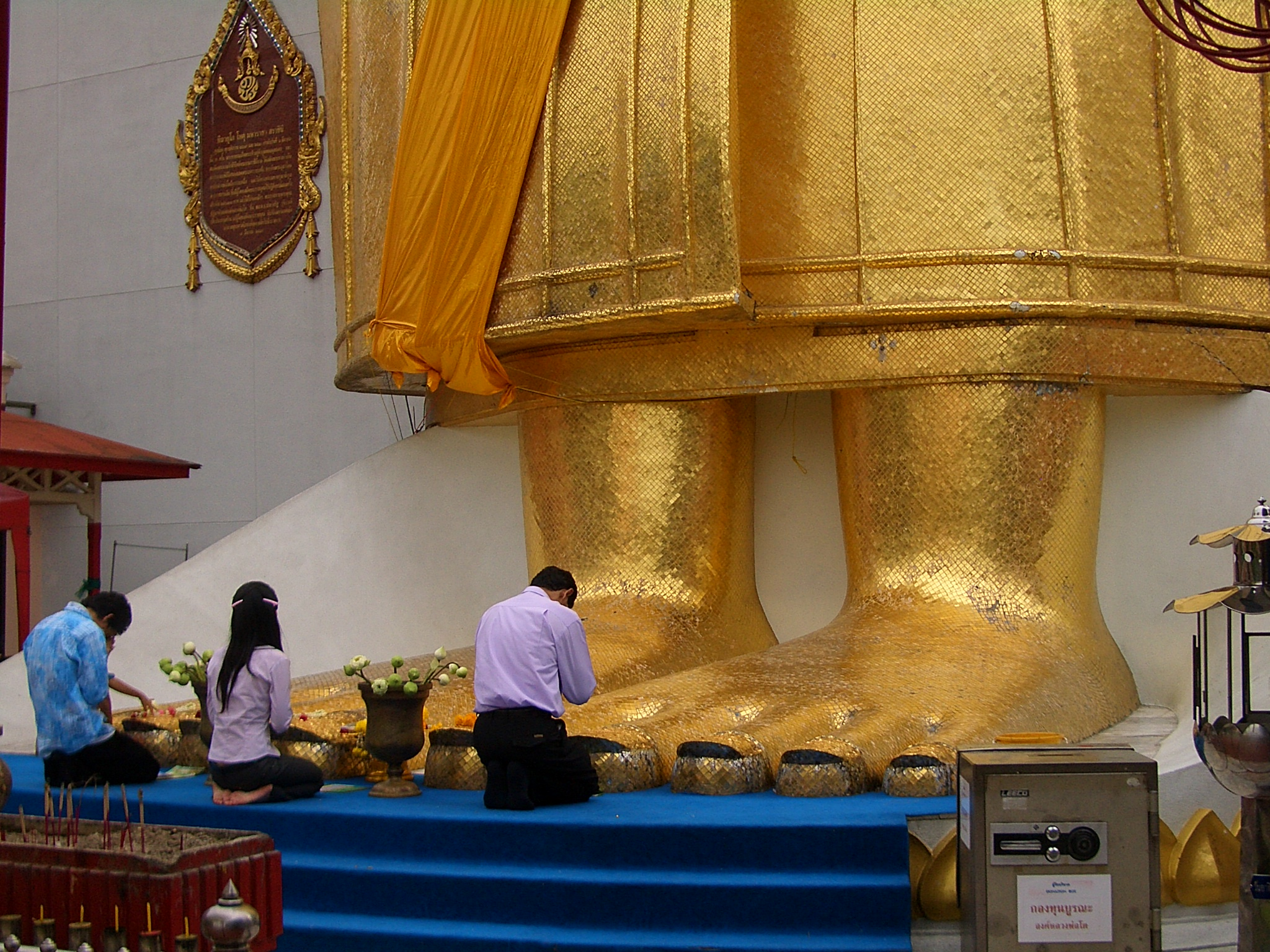 Worshippers at the feet of the giant Buddha statue at Wat Indrawihan, Bangkok.